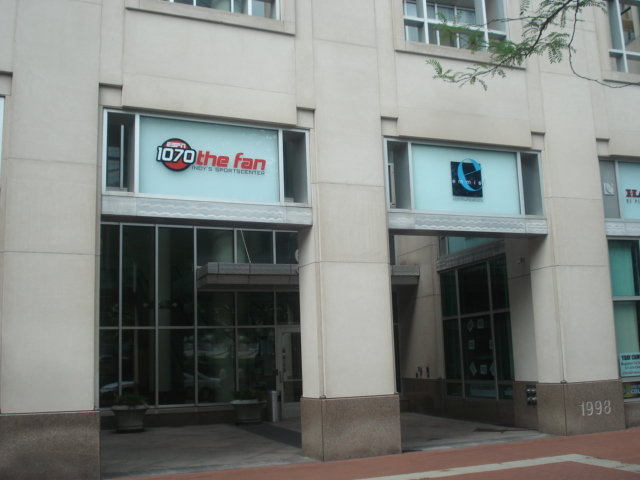 1070 The Fan